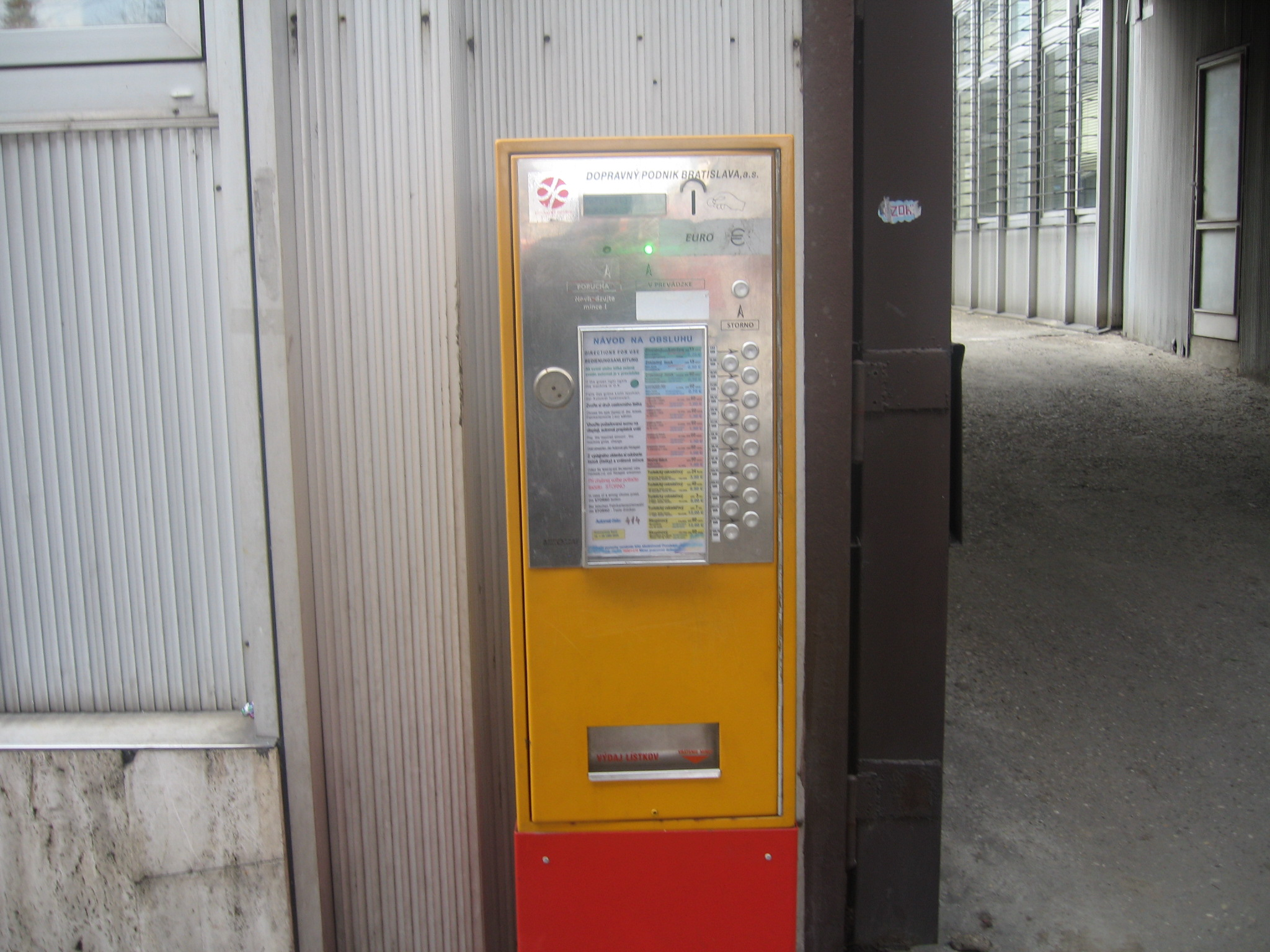 Ticket machine in Bratislava, Slovakia. Used to sell tickets to busses and trams.